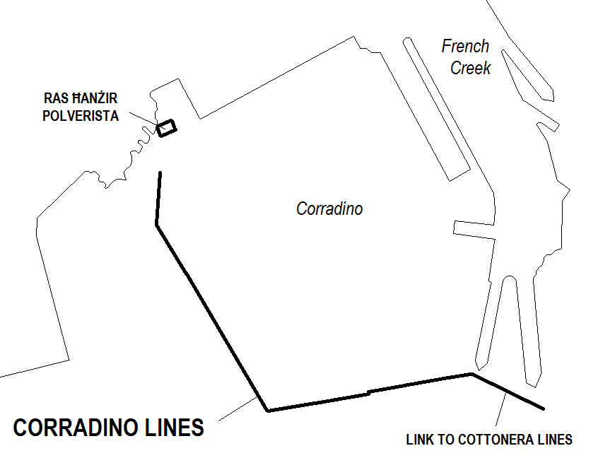 Map of the Corradino Lines in Paola, Malta. See also File:Corradino Batteries map.png for a map of Corradino prior to the construction of the lines.